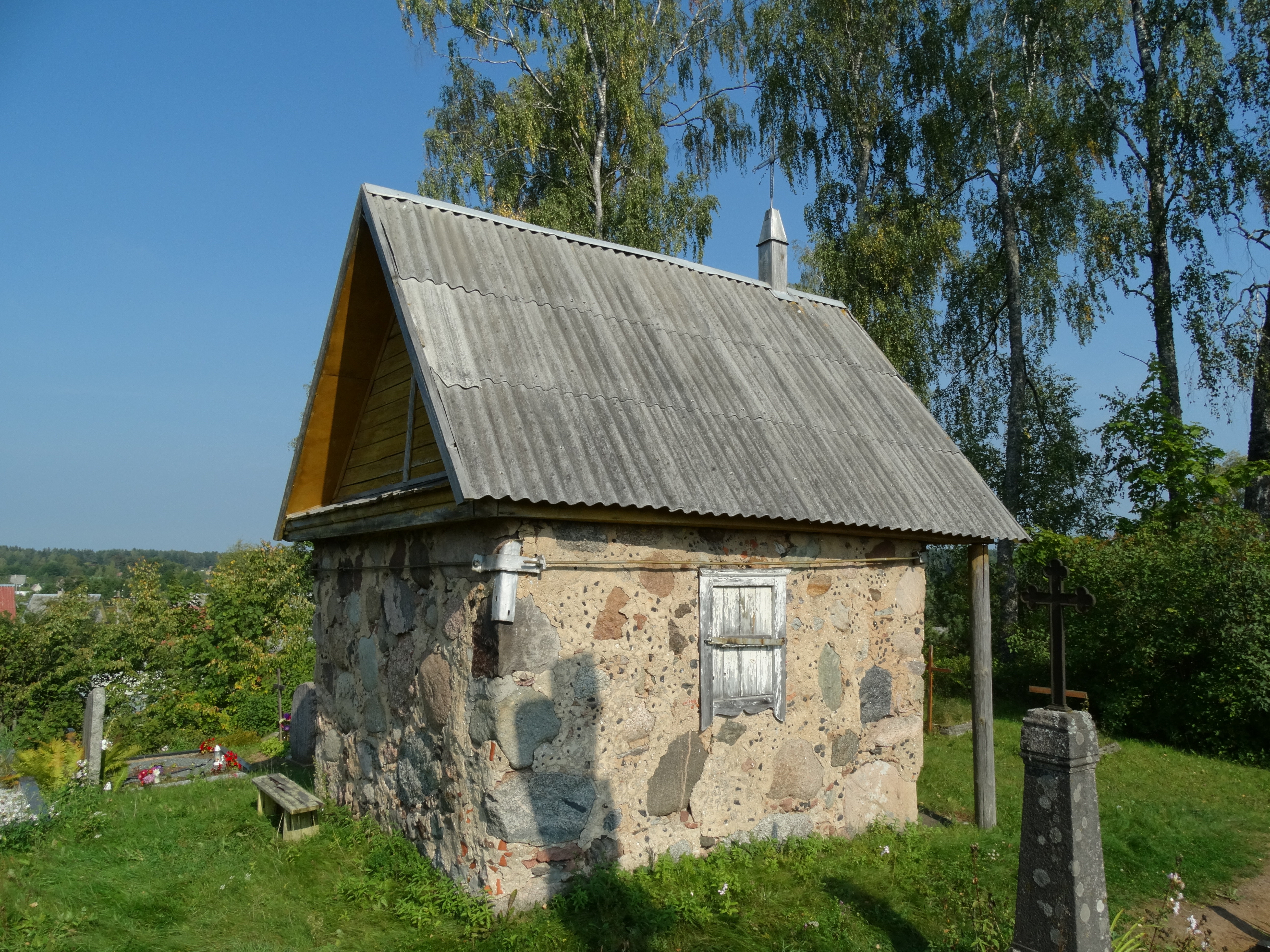 Chapel, Magūnai, Visaginas Municipality, Lithuania